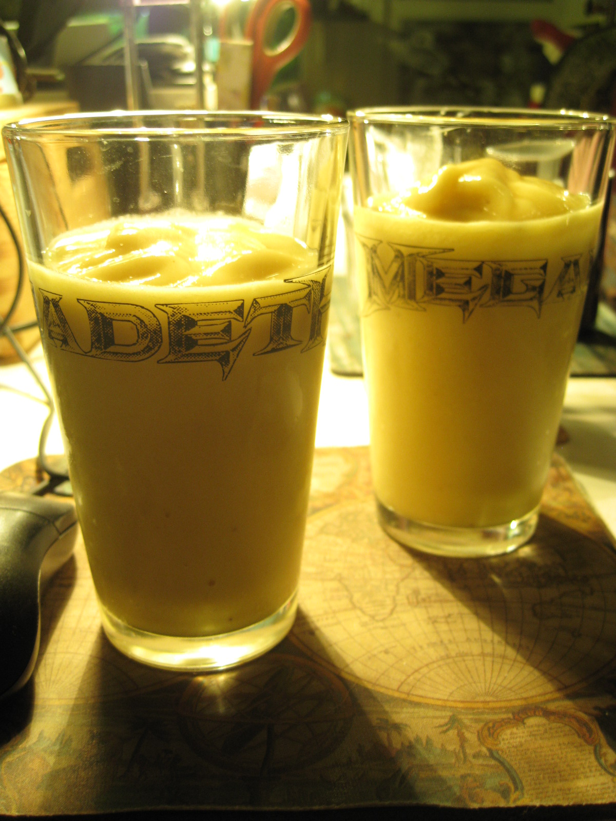 MegadethGlass with Smoothie